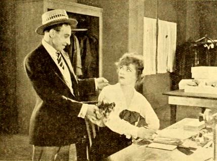 Still from the film Maggie Pepper (1919) with Elliott Dexter and Ethel Clayton, on page 1205 of the March 1, 1919 Moving Picture World.